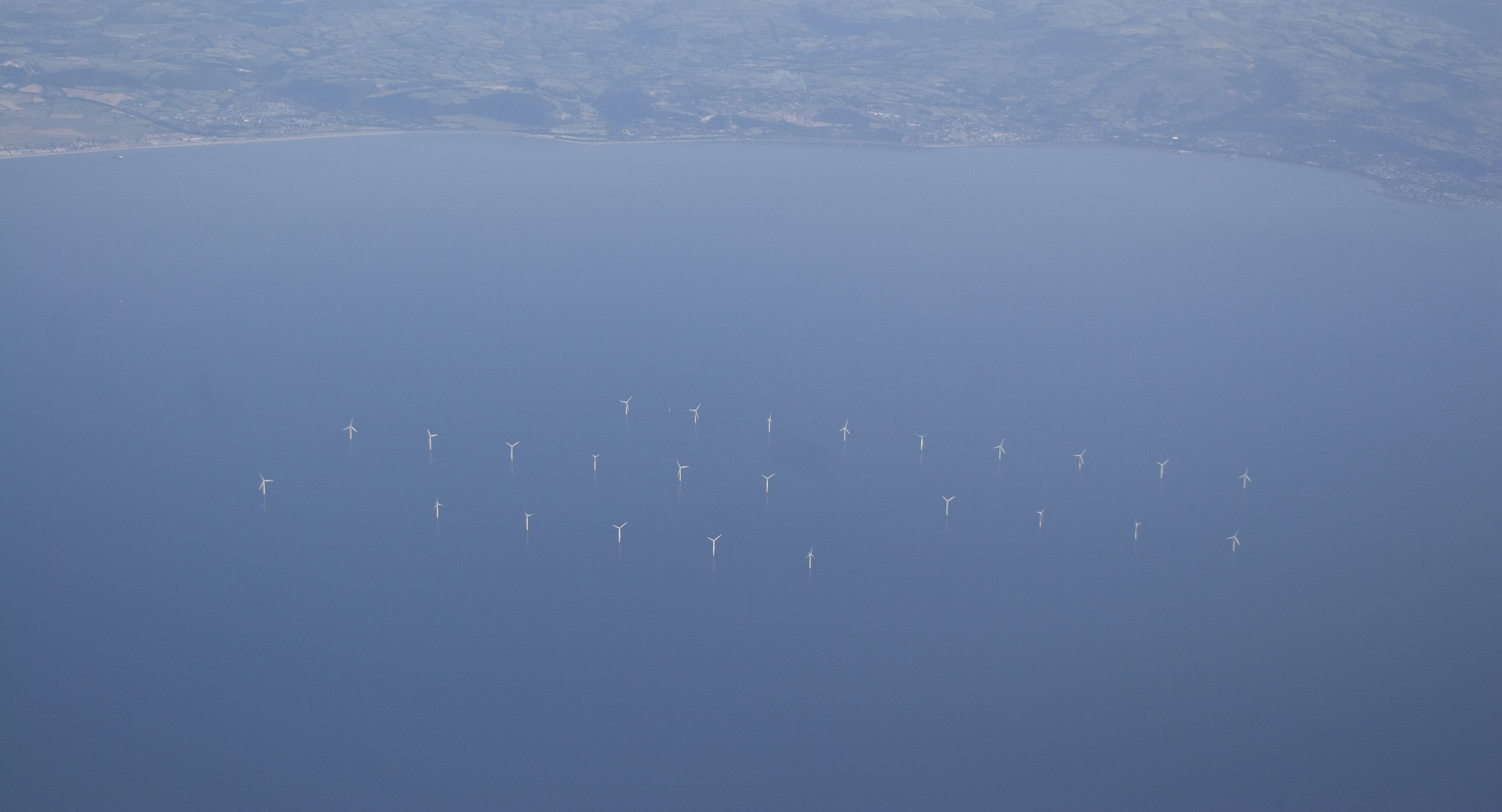 Rhyl Flats wind farm (I think!) viewed from the air, looking south.